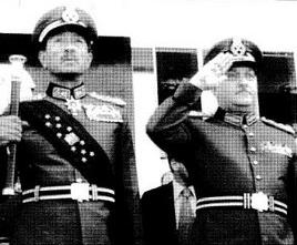 Photograph of Egyptian President Anwar Sadat with Kamal Hassan Ali, both in military uniform.